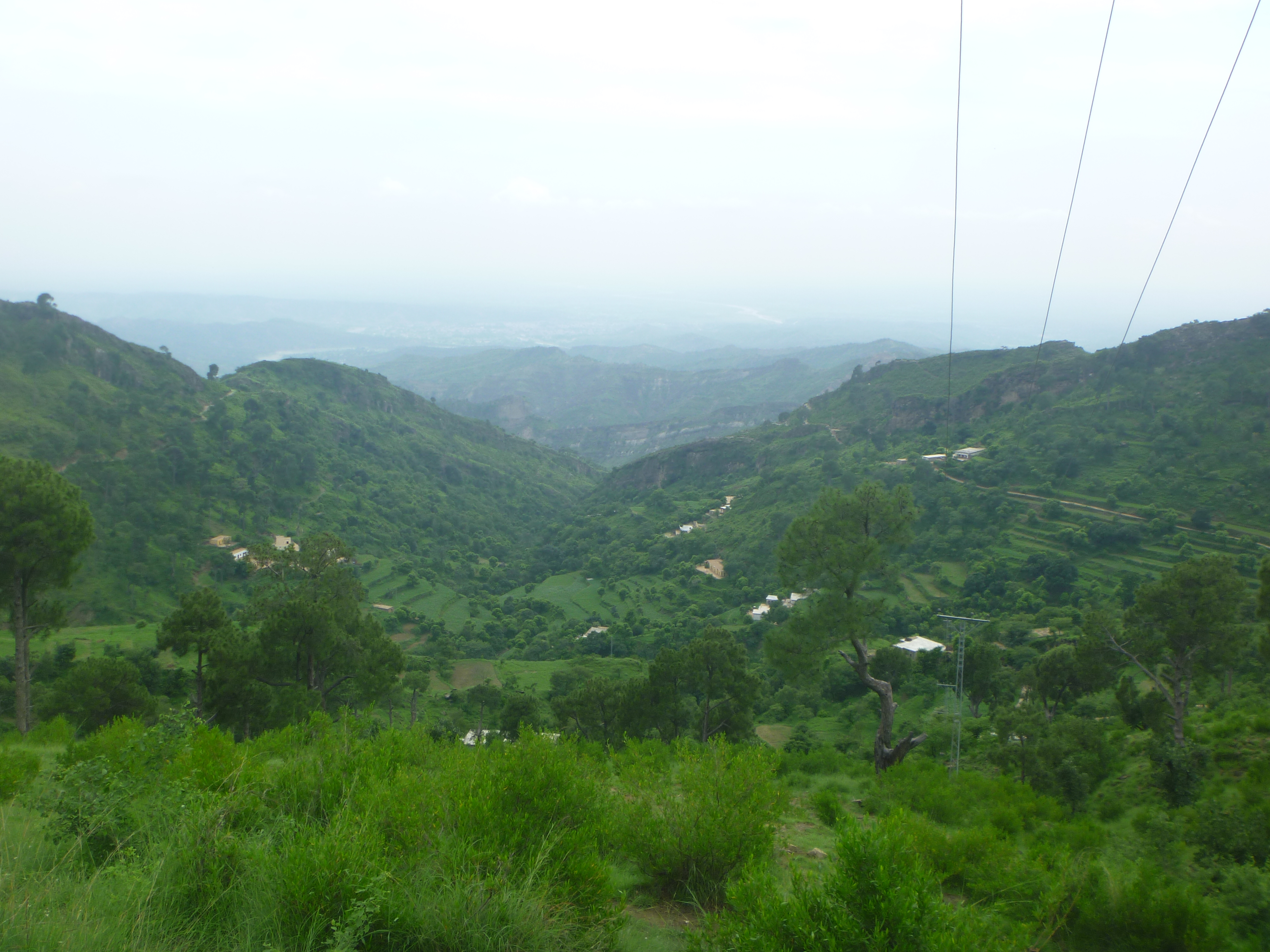 Picturesque View of Samahni Valley near Jandi chontara